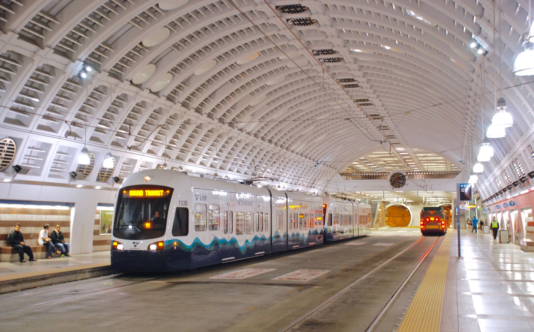 A southbound Link light rail train at Pioneer Square station on July 24, 2009, the seventh day of service on the newly opened light rail system. In the distance, at right, is a northbound King County Metro bus.